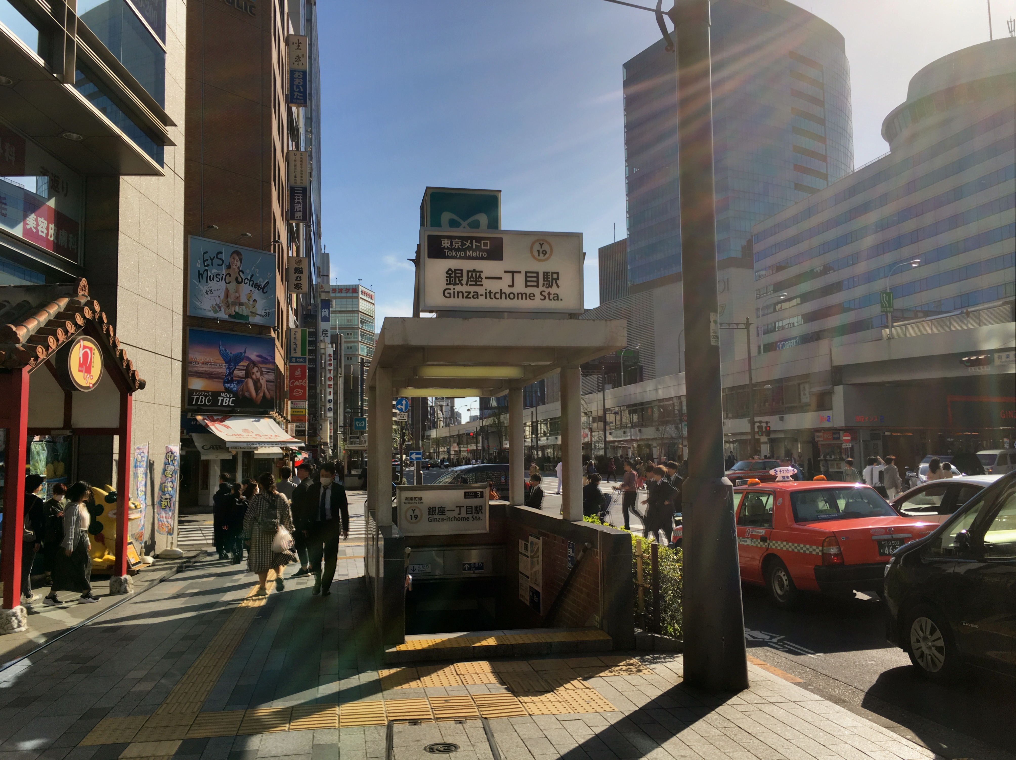 銀座一丁目駅の３番出口 (Ginza-itchōme Station number 3 exit)